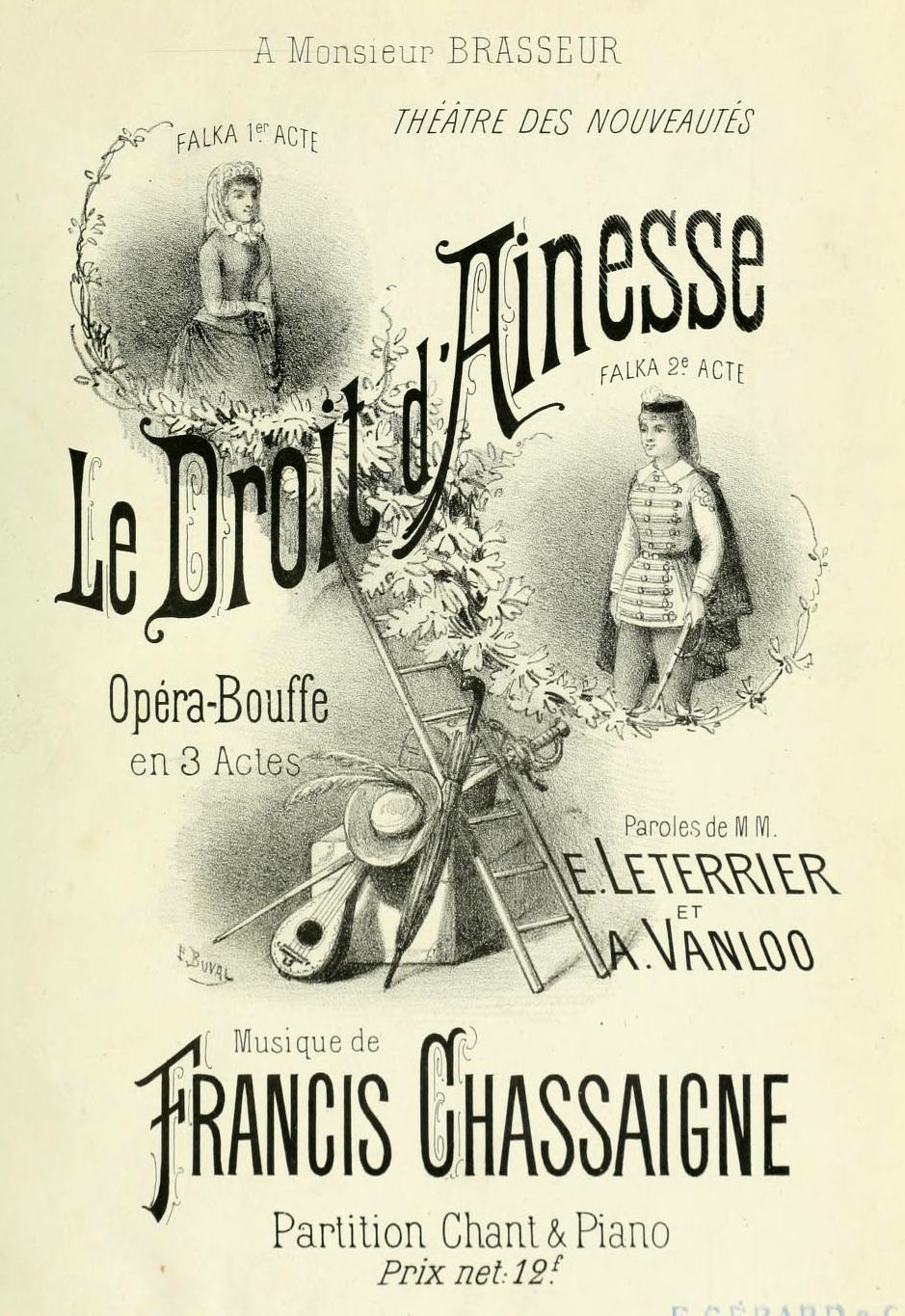 Description: Title page of the piano/vocal score for Le droit d'aînesse Authors: Chassaigne, Francis, (1848-1922); Leterrier, Eugène (1843-1884); Vanloo, Albert, 1846-1920. Illustrator: Unknown Publisher and date of publication:: Paris: E. Gérard, 1880 Source: Le droit d'aînesse; opéra bouffe en 3 actes